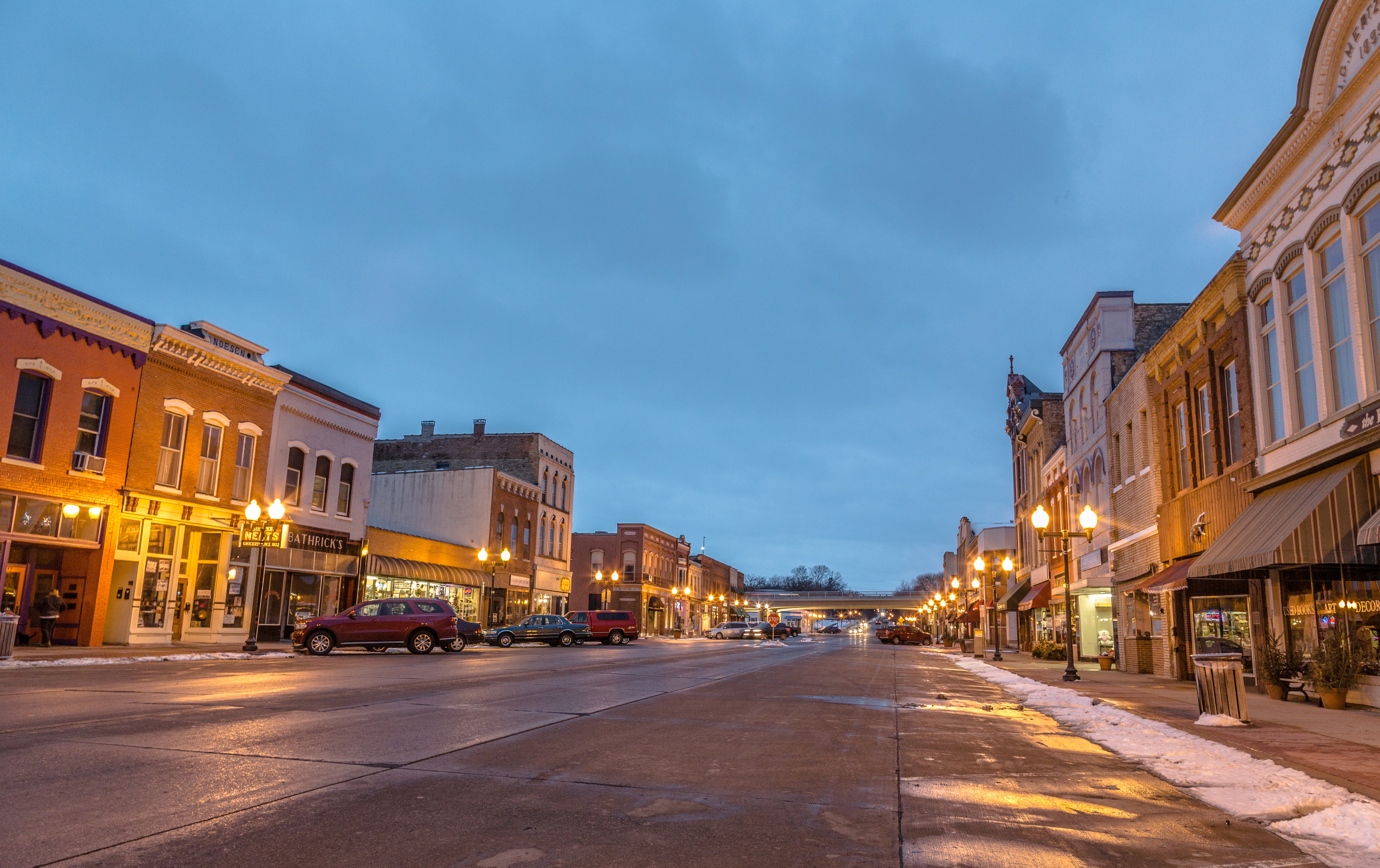 2nd Street East facing west in the old Historic Downtown area of Hastings, Minnesota, near the Hastings Bridge and Mississippi River.